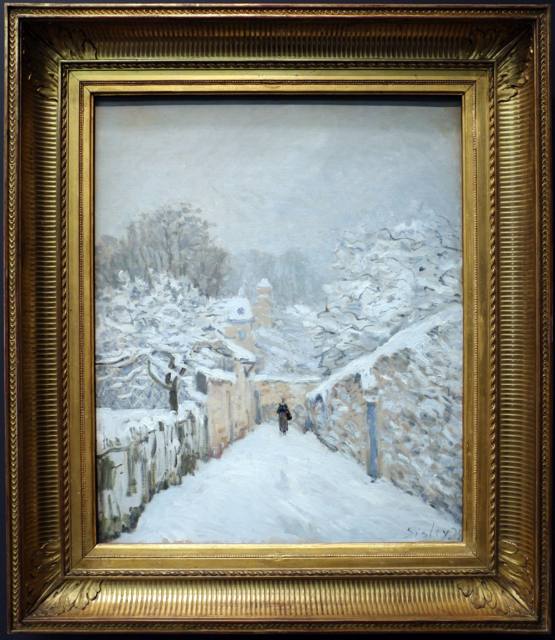 Paintings by Alfred Sisley in Musée d'Orsay